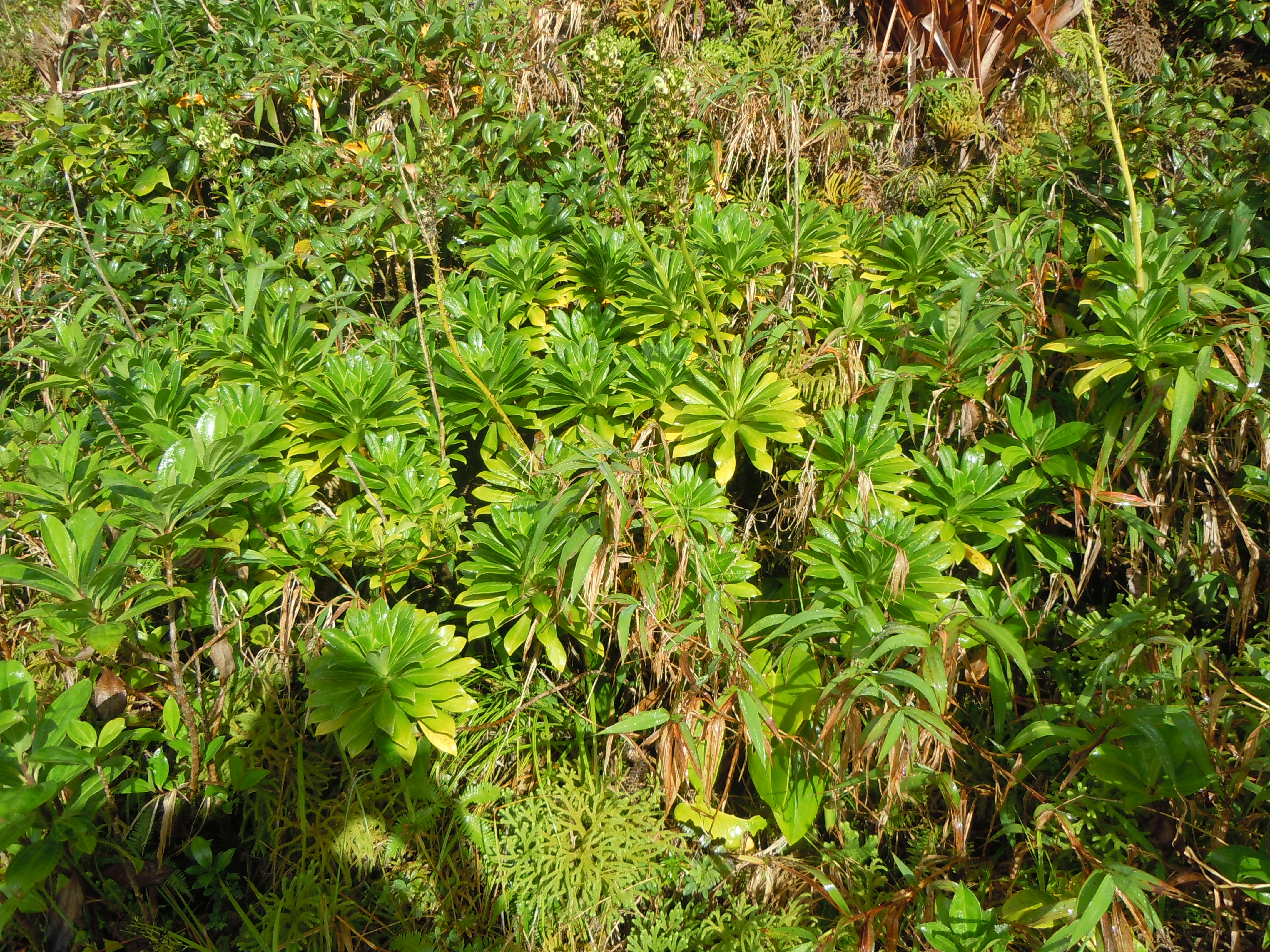 Lobelia stricta - La Soufrière - Savane à Mulet